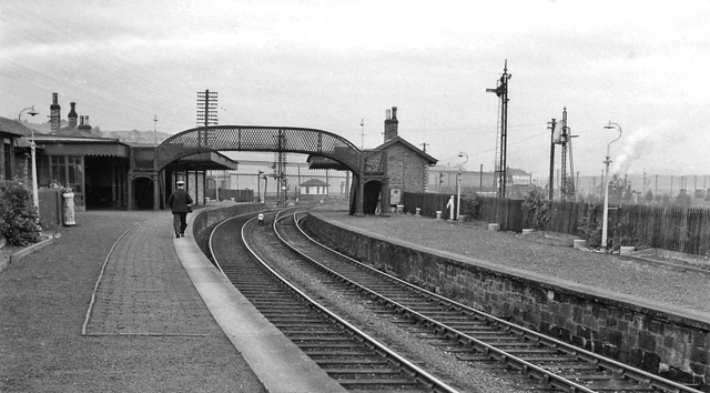 Bathgate Upper Station, Near to Bathgate, West Lothian, Great Britain. View SE, towards Edinburgh. This photograph was taken 6½ years(!) after the station and the passenger service through it between Edinburgh (Waverley) and Glasgow (Queen Street Low Level) ceased (9/1/56, yet it looks remarkably functional in this photograph. As far as I can make out, the last goods train to pass through on this particular line was in 2/82, but I remain baffled by the complexity and history of the lines in this area and welcome an expert opinion! The new Bathgate station, opened on 24/3/86 when a service to Edinburgh was restored, is slightly to the east.